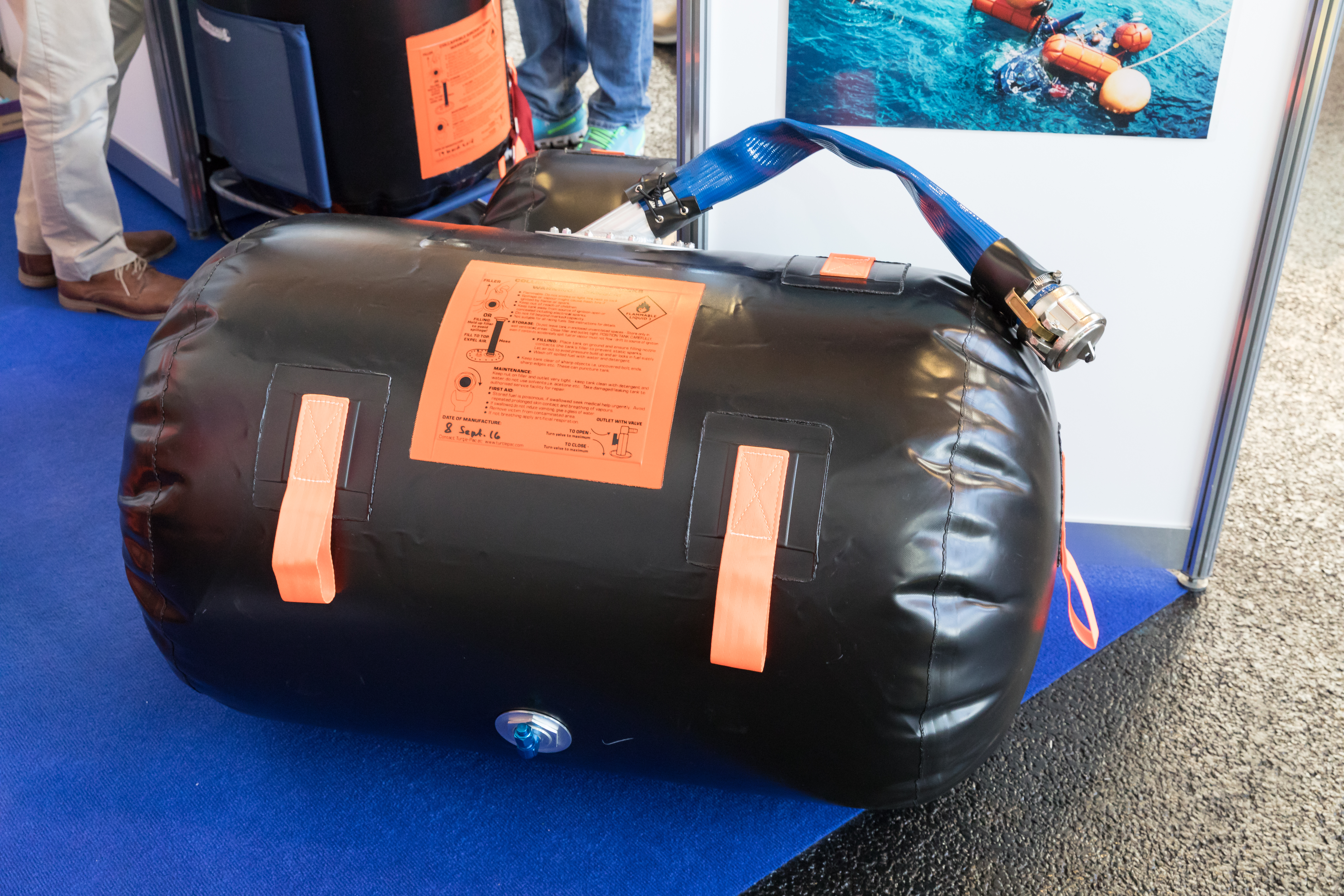 AERO Friedrichshafen 2018